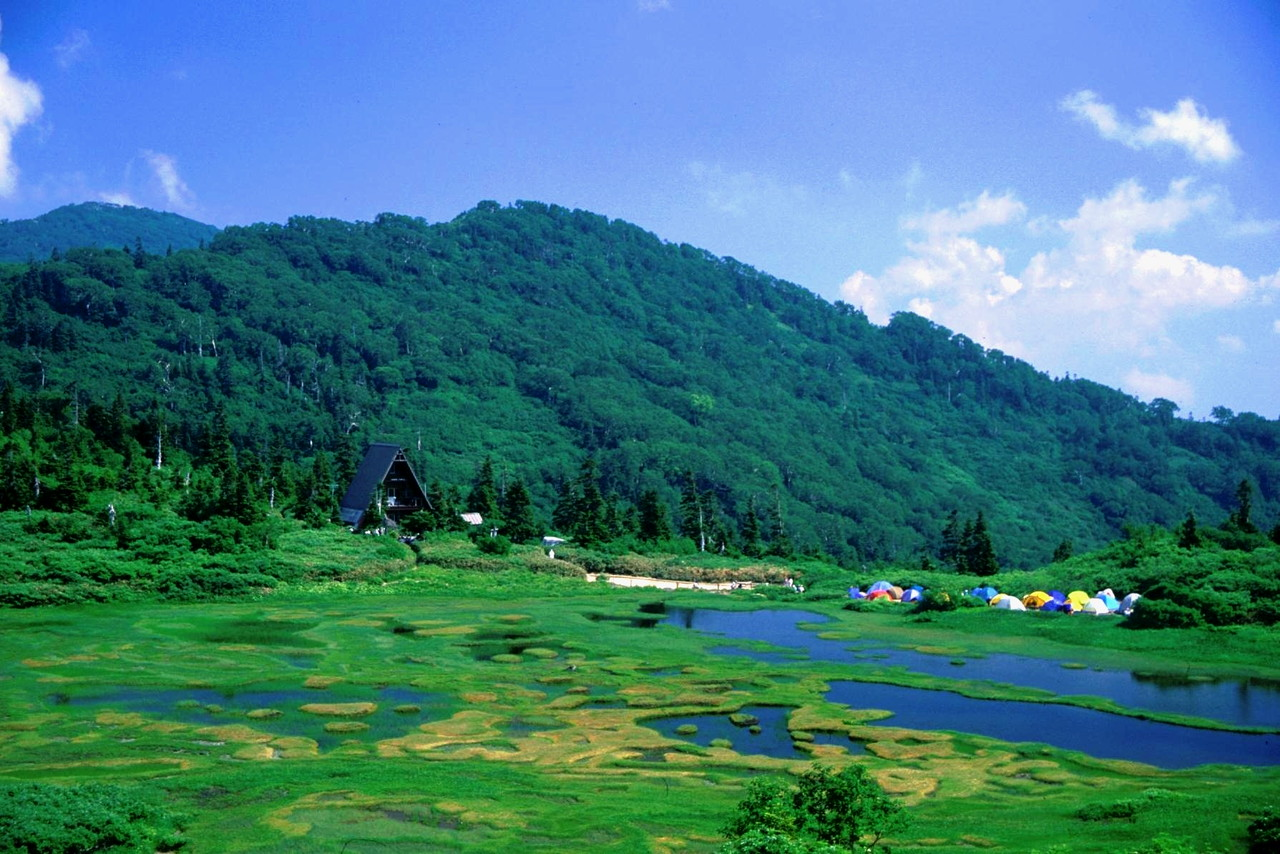 Kouyaike_hut_from_Kouyaike